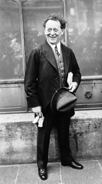 Dutch conductor Willem Mengelberg (1871-1951).